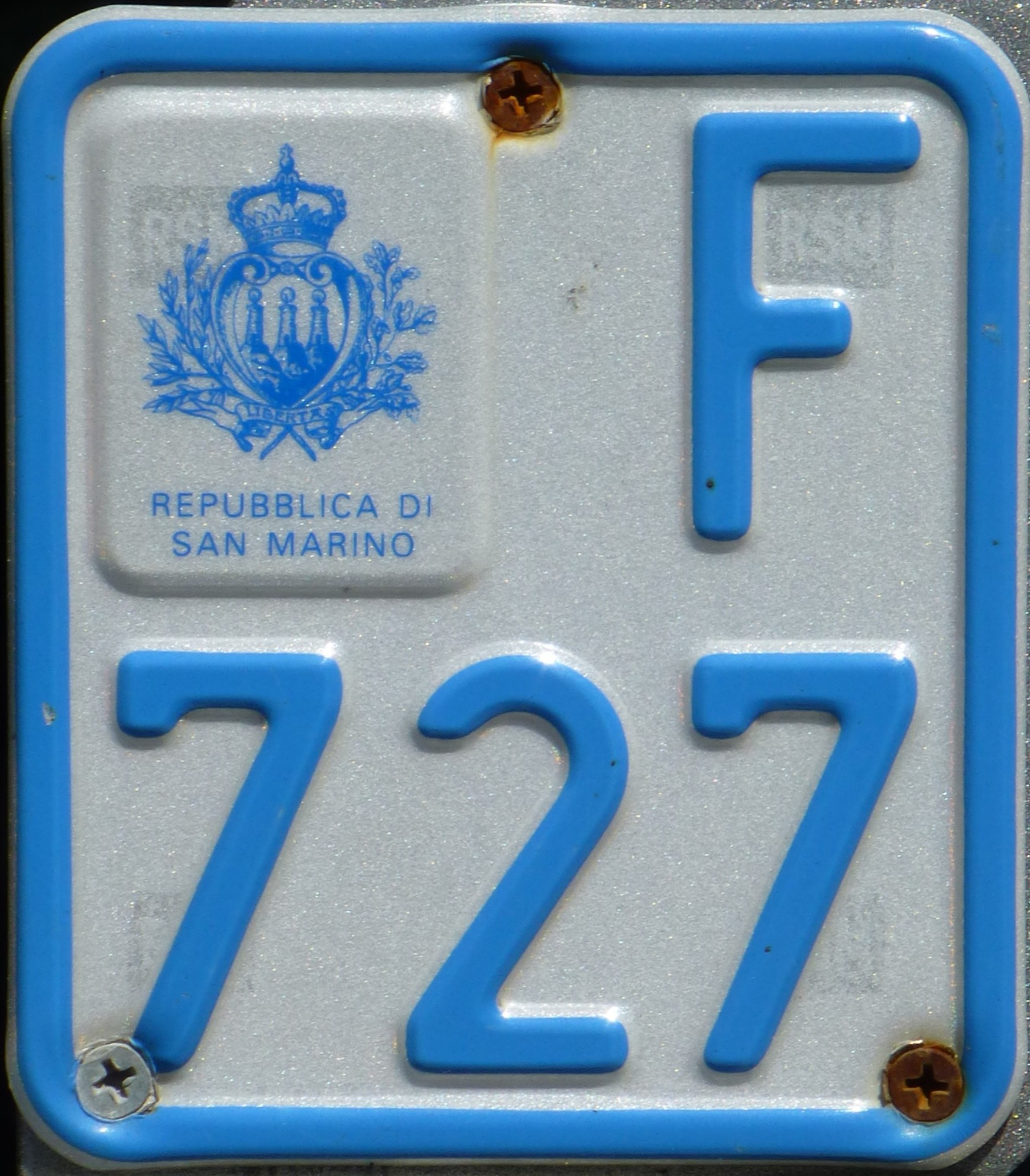 License plate from San Marino for small motorcycles and other small vehicles